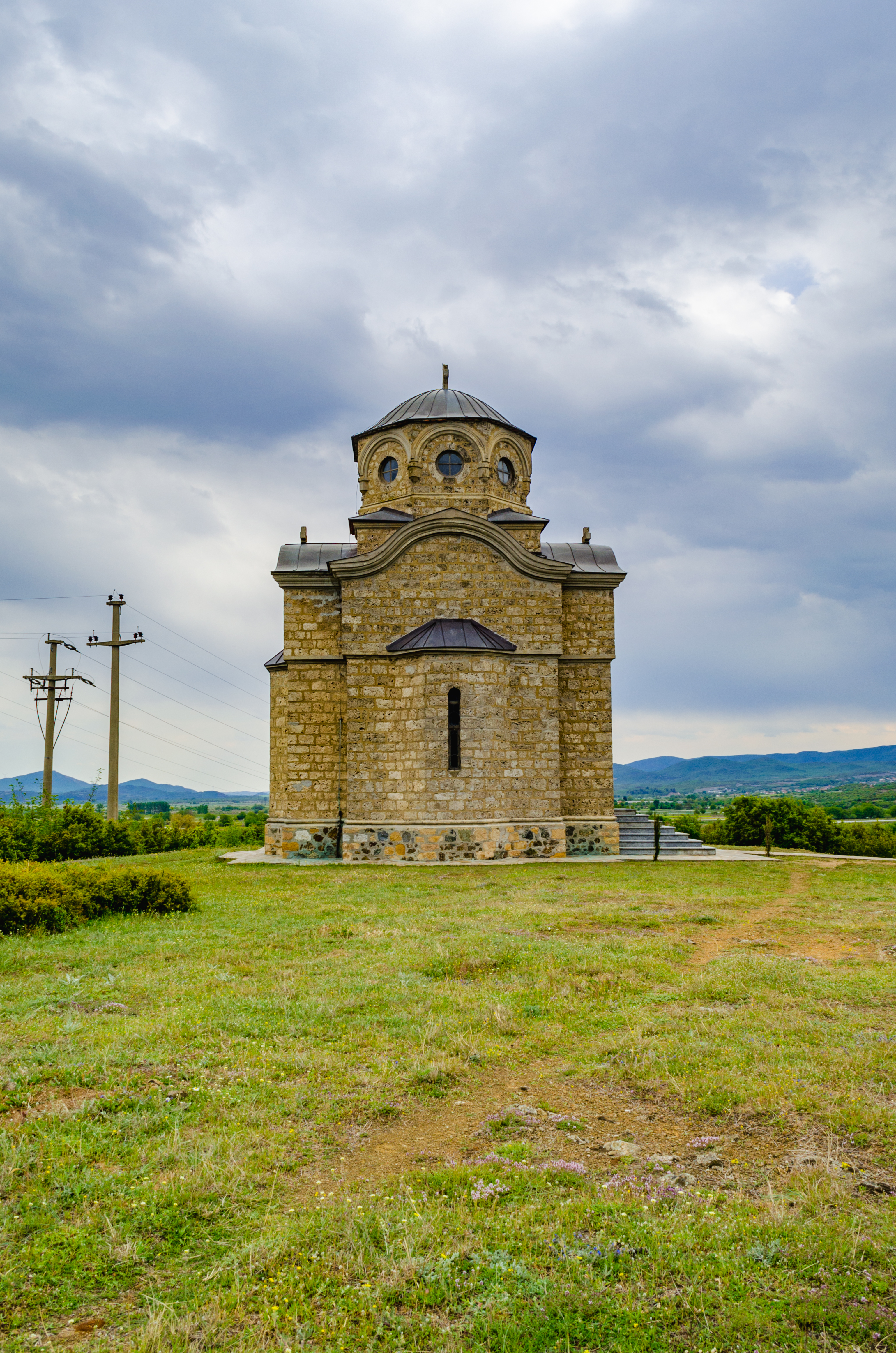 Udovo Memorial honouring Serbian soldiers in the eponymous village